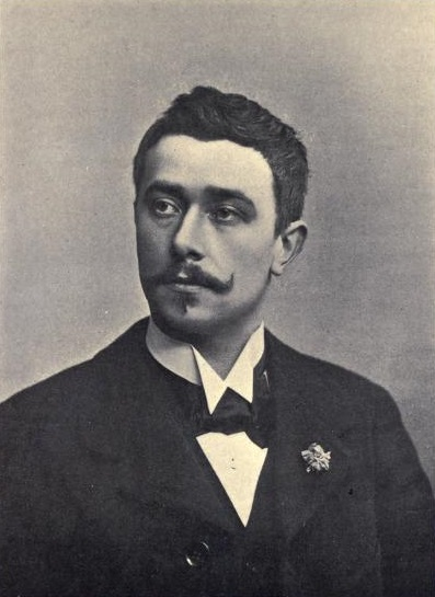 Portrait of Maurice Maeterlinck